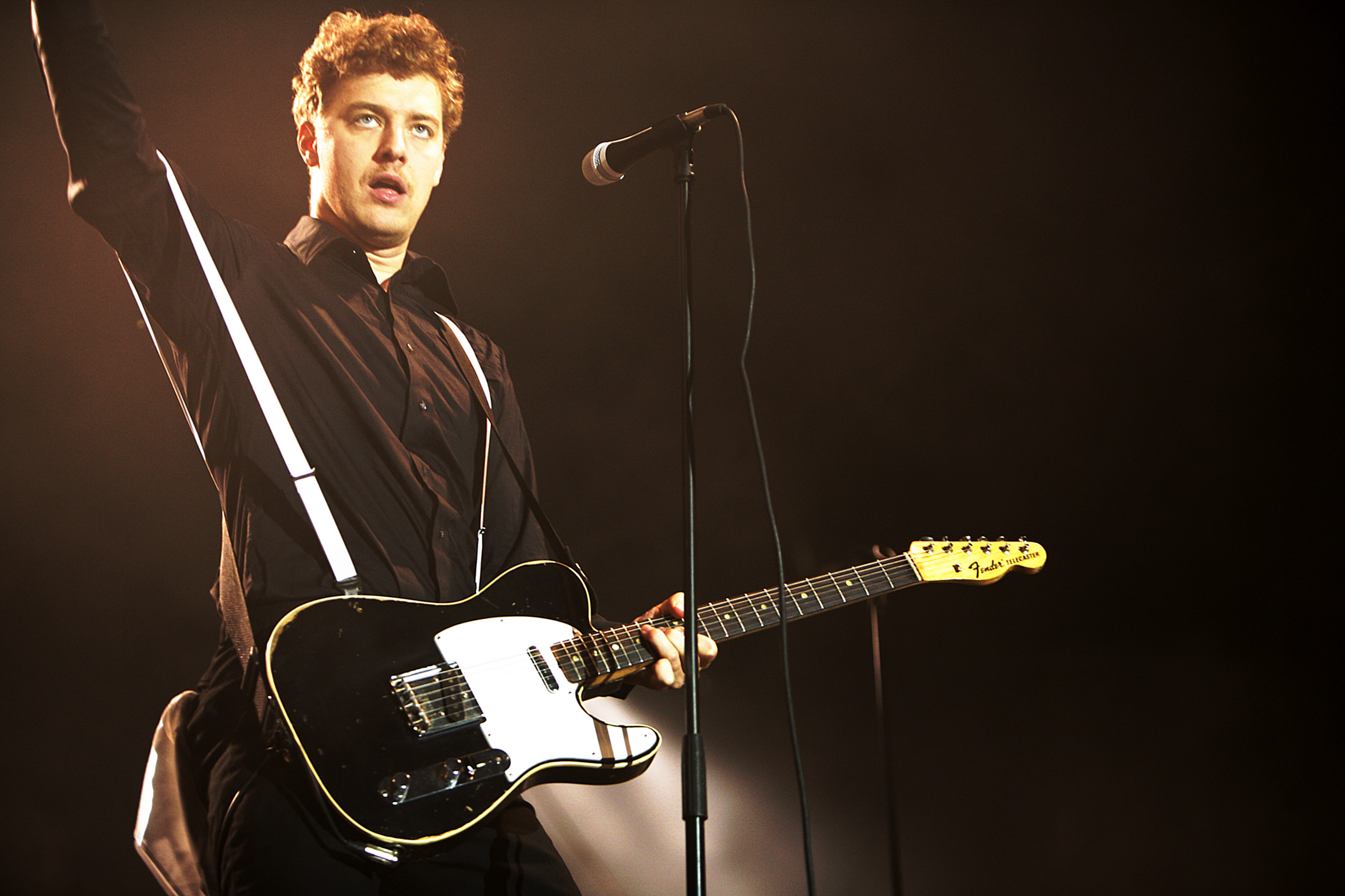 The Hives at the Eurockéennes of 2007